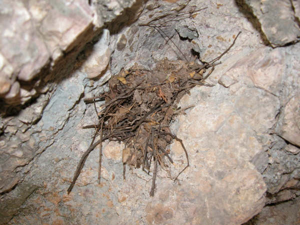 Canyon Wren nest, Chihuahua Mexico